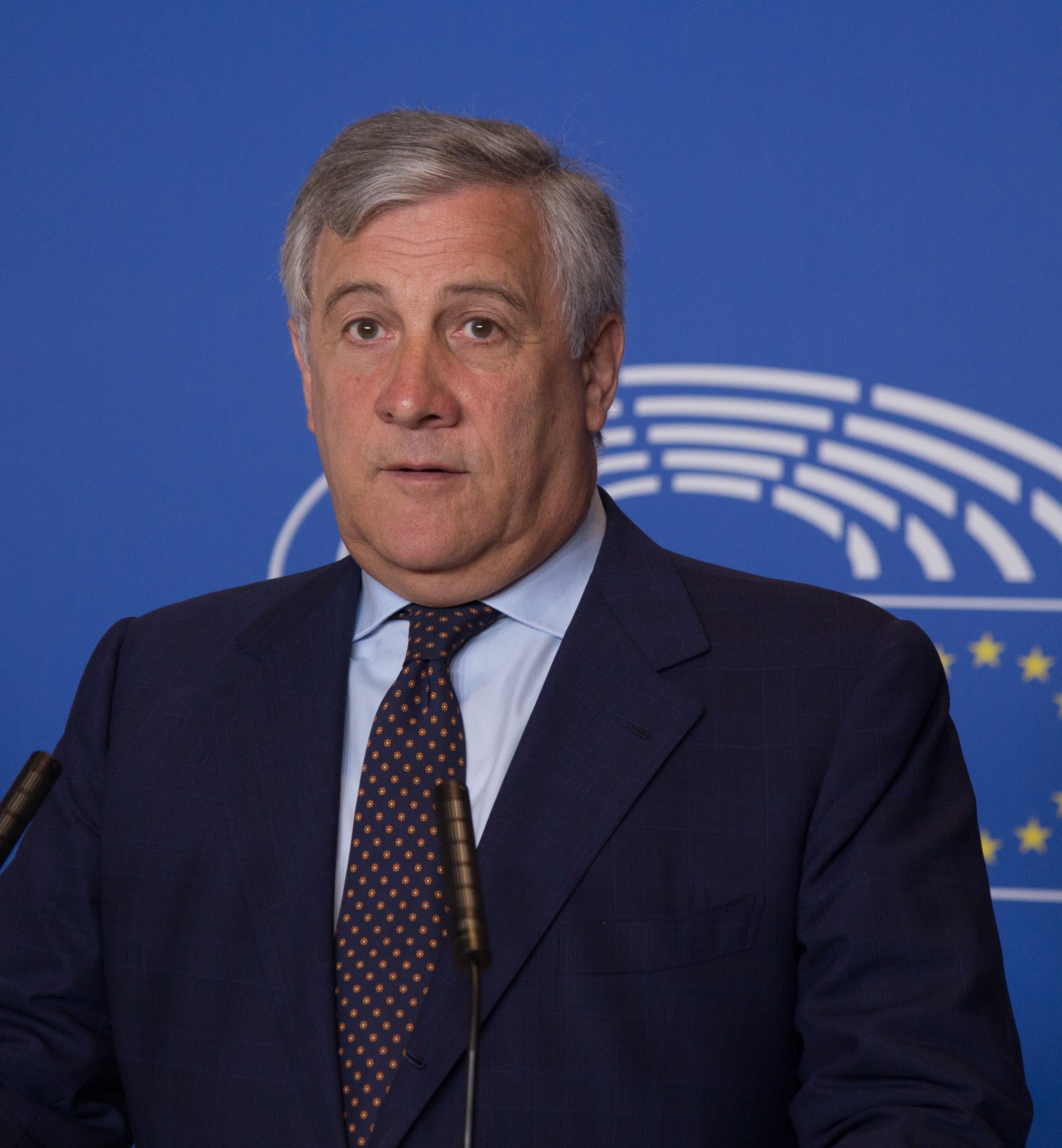 Antonio Tajani, President of the European Parliament in Strasbourg.